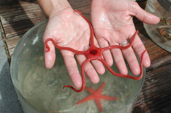 Giant red brittlestar of genus Ophioderma (Ophiuroidea : Ophiurida : Chilophiurina : Ophiodermatidae)